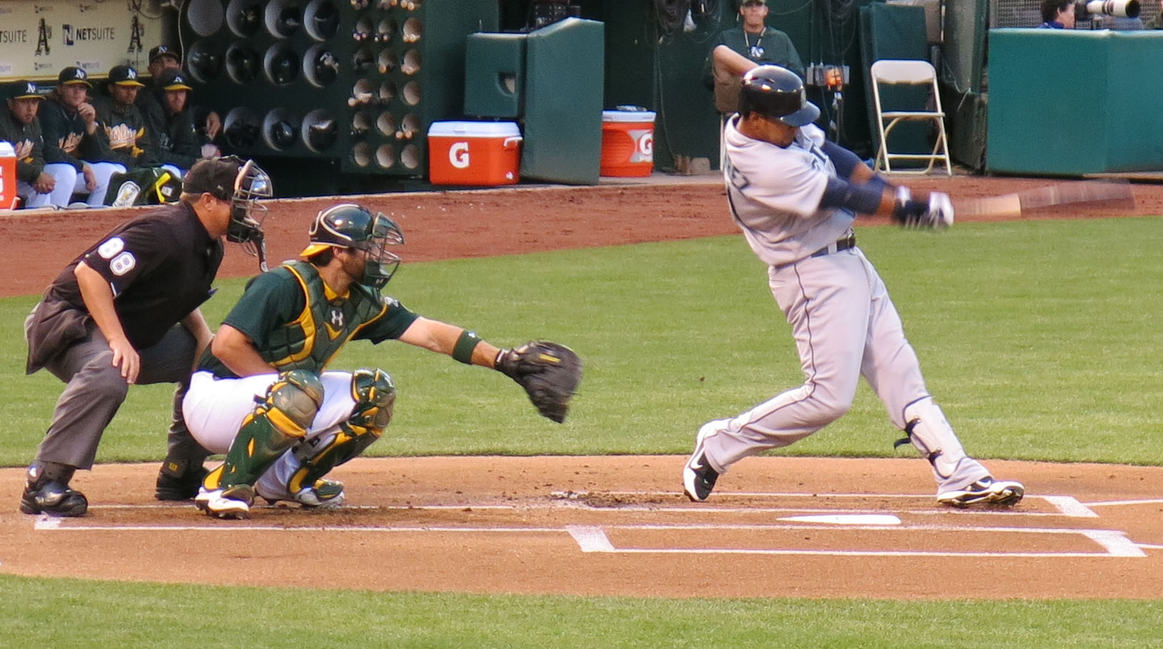 Seattle Mariners outfielder Franklin Gutiérrez hits a leadoff home run against Oakland Athletics starting pitcher Tommy Milone in Oakland, California.